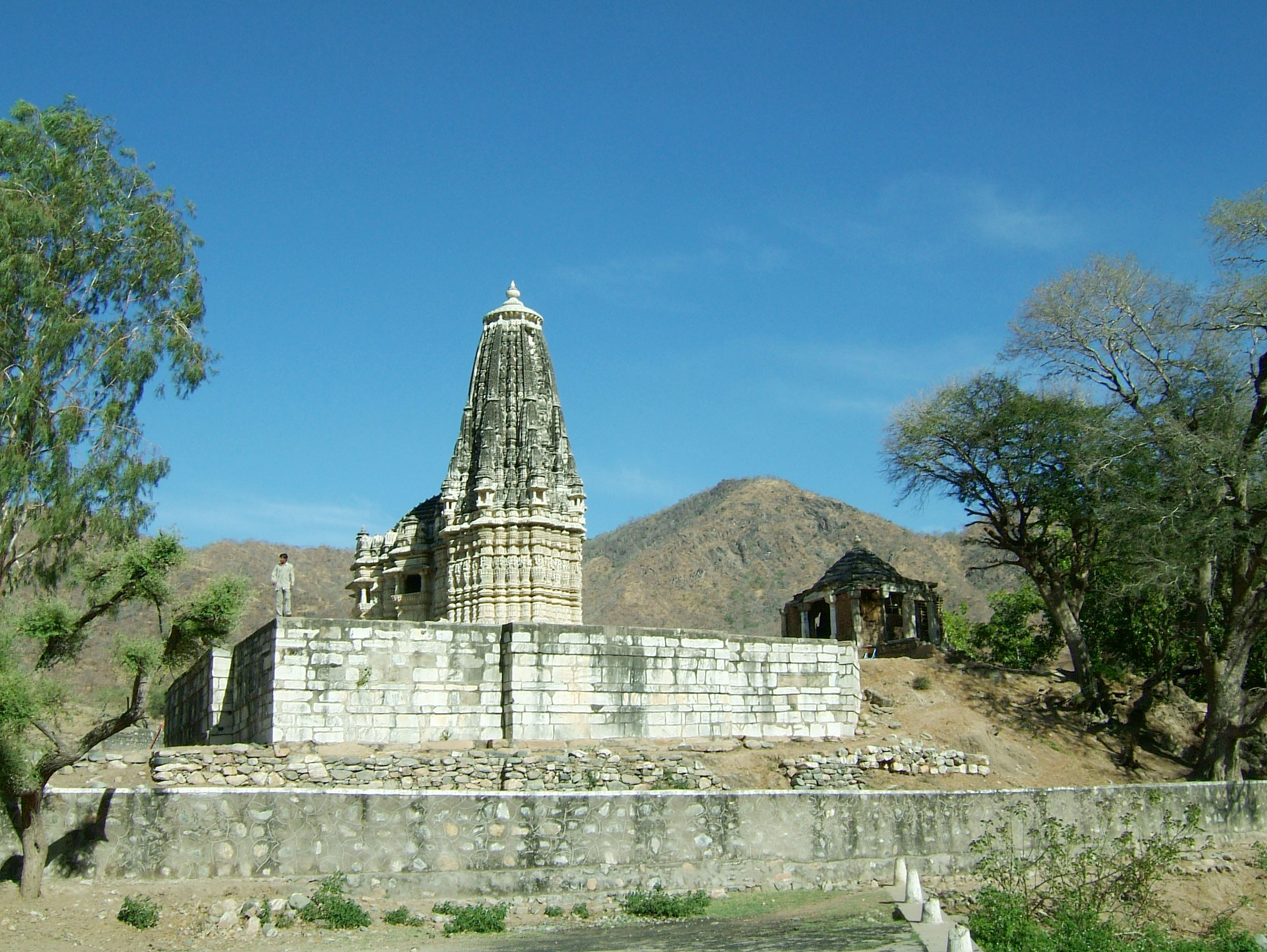 Sun Temple,maintained by Royals of Udaipur, Ranakpur, Pali district, India